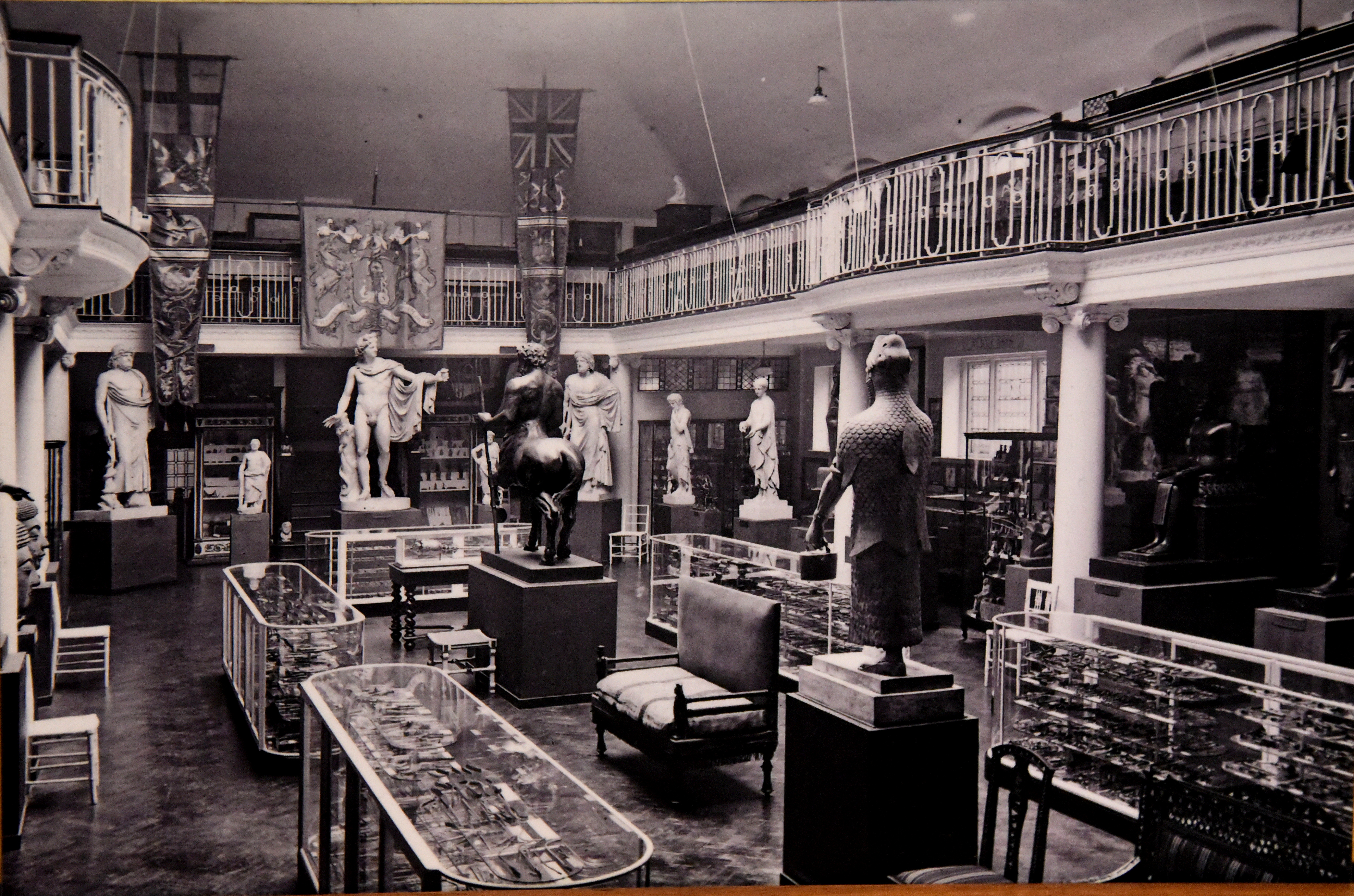 Hall of Statuary, Wellcome Historical Medical Museum, Wigmore Street, London, c. 1926. Unknown photographer. The picture is housed in the Wellcome Collection and is on display. The original black&white picture is ©Wellcome Trust.